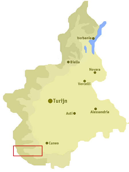 Position of the valley Val Stura di Demonte